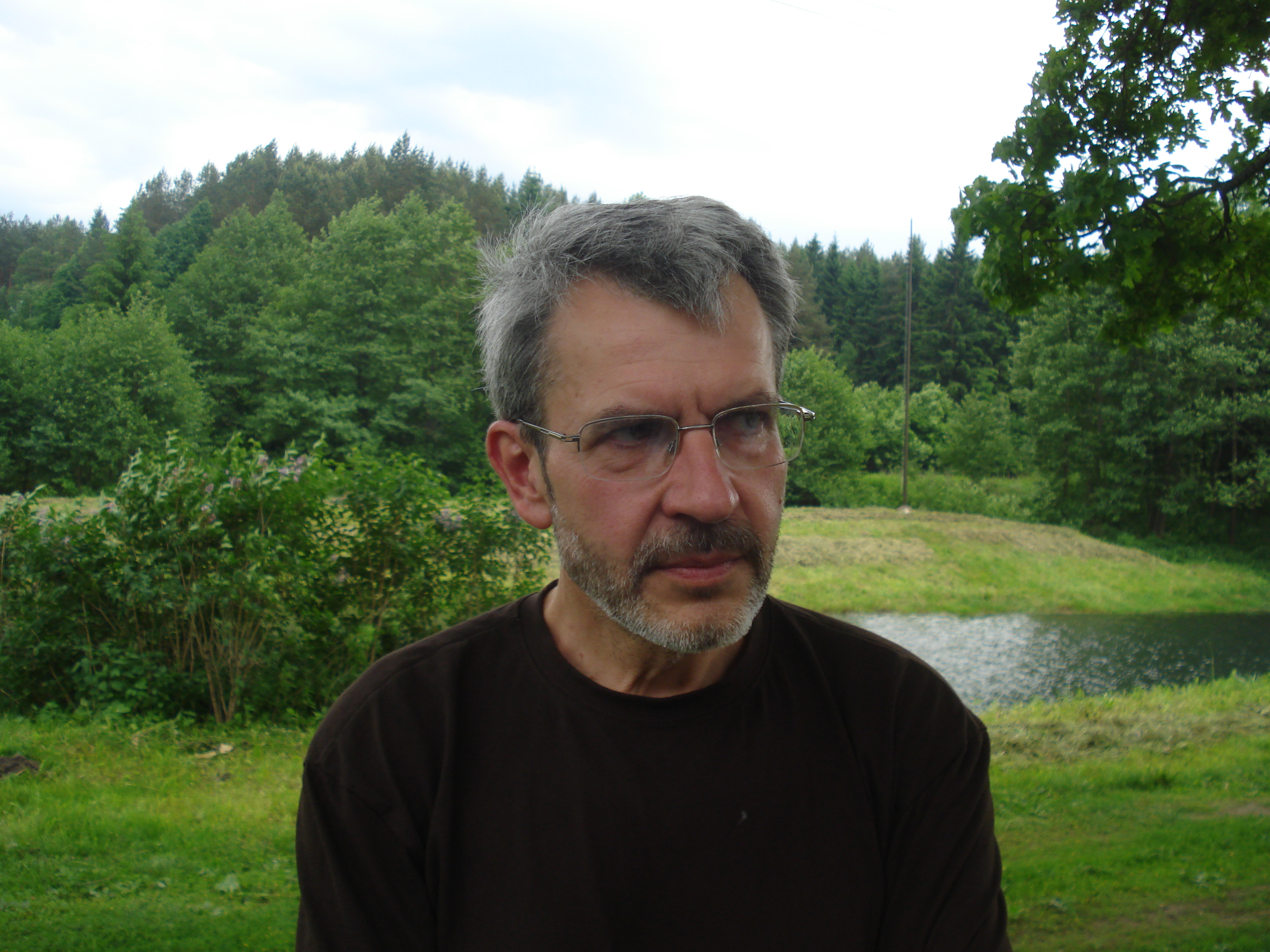 Arūnas Baltėnas (born 1956), Lithuanian photographerLietuvių: Arūnas Baltėnas (g. 1956), Lietuvos fotomenininkas